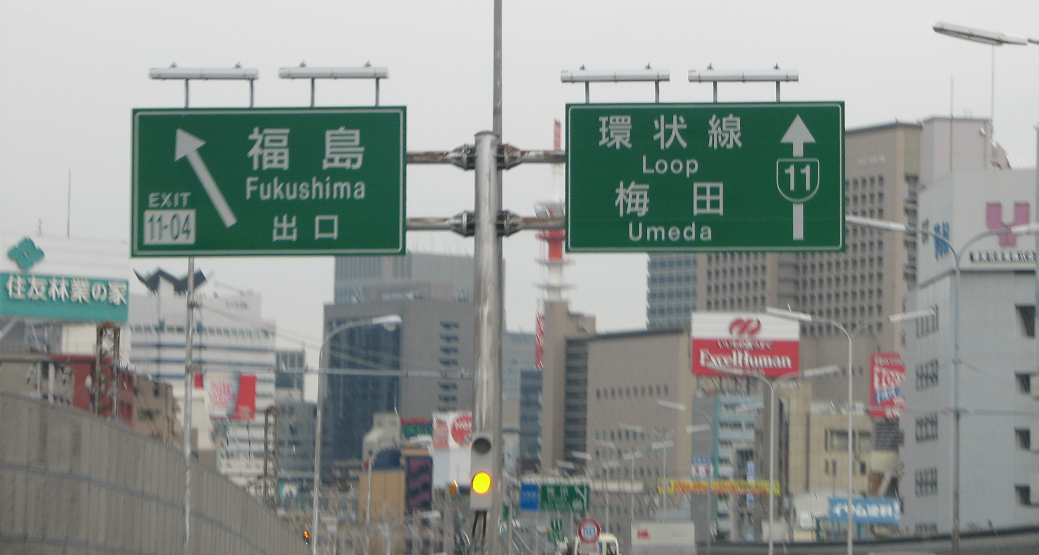 Hanshin Expressway Fukushima IC